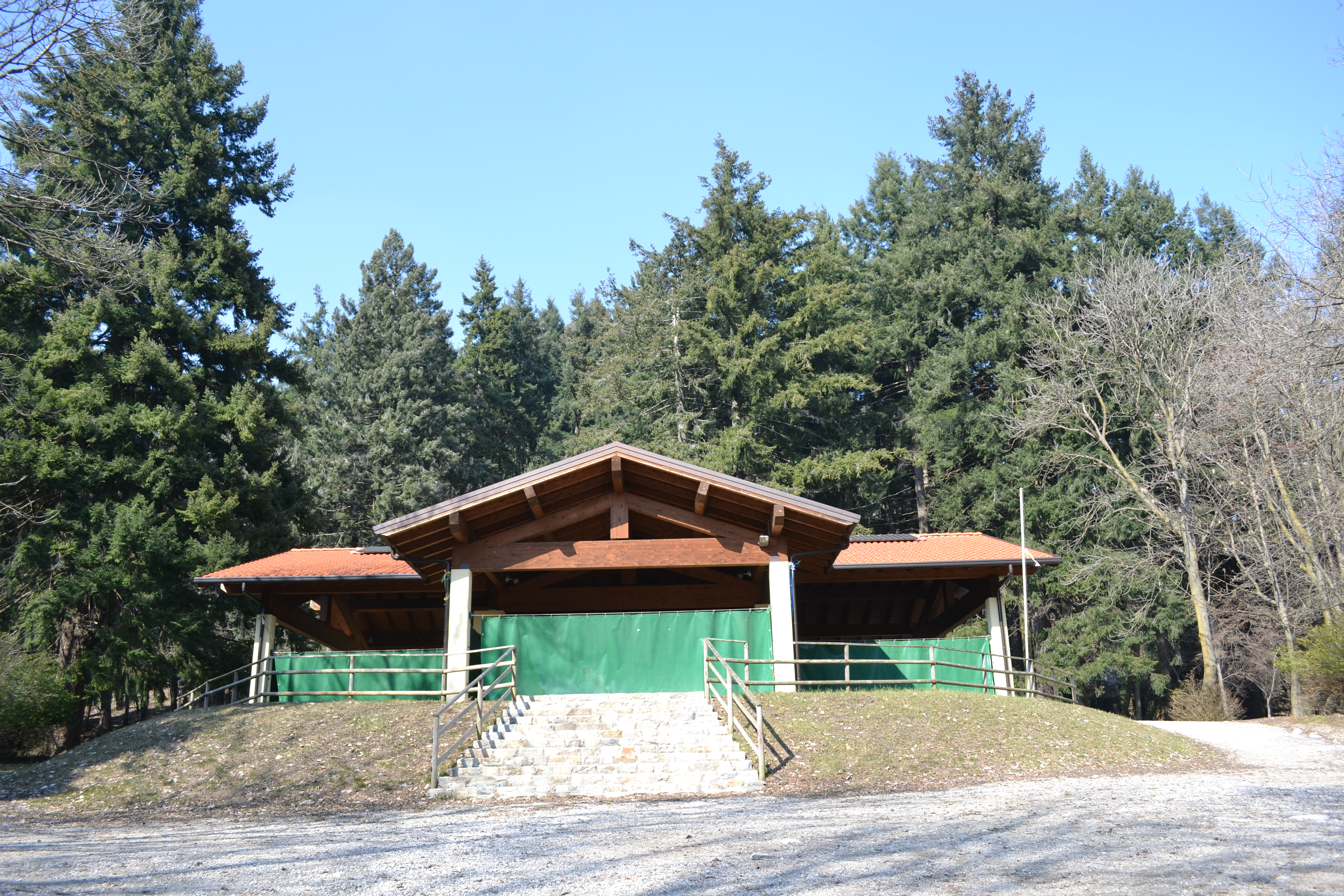 "campo estivo" at Alpe del Vicerè